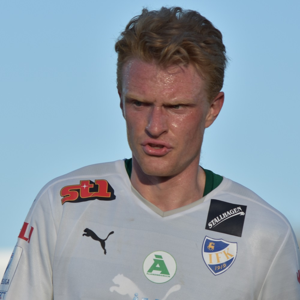 Association football player Nicklas Maripuu (IFK Mariehamn)